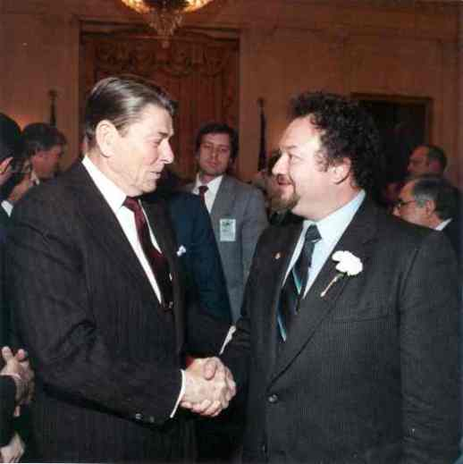 Congressman Gary Ackerman meeting with President Ronald Reagan in the mid-1980's. Ackerman remembered Reagan during the weeklong tribute to him after his death. (June 2004)